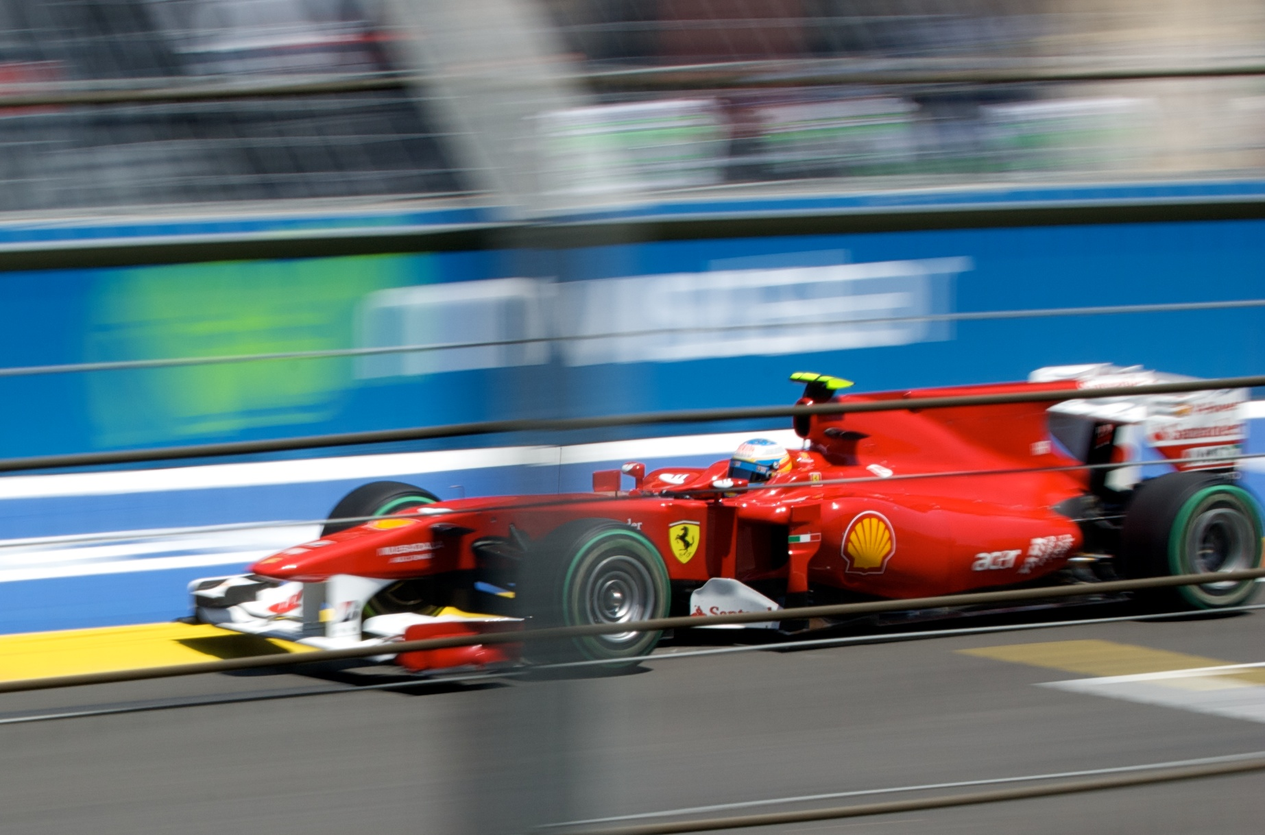 Fernando Alonso driving for Scuderia Ferrari at the 2010 European Grand Prix.